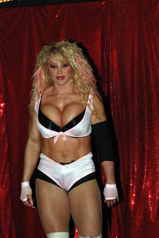 Melissa Coates making her entrance at a NWA Anarchy event in Cornelia, Georgia, USA